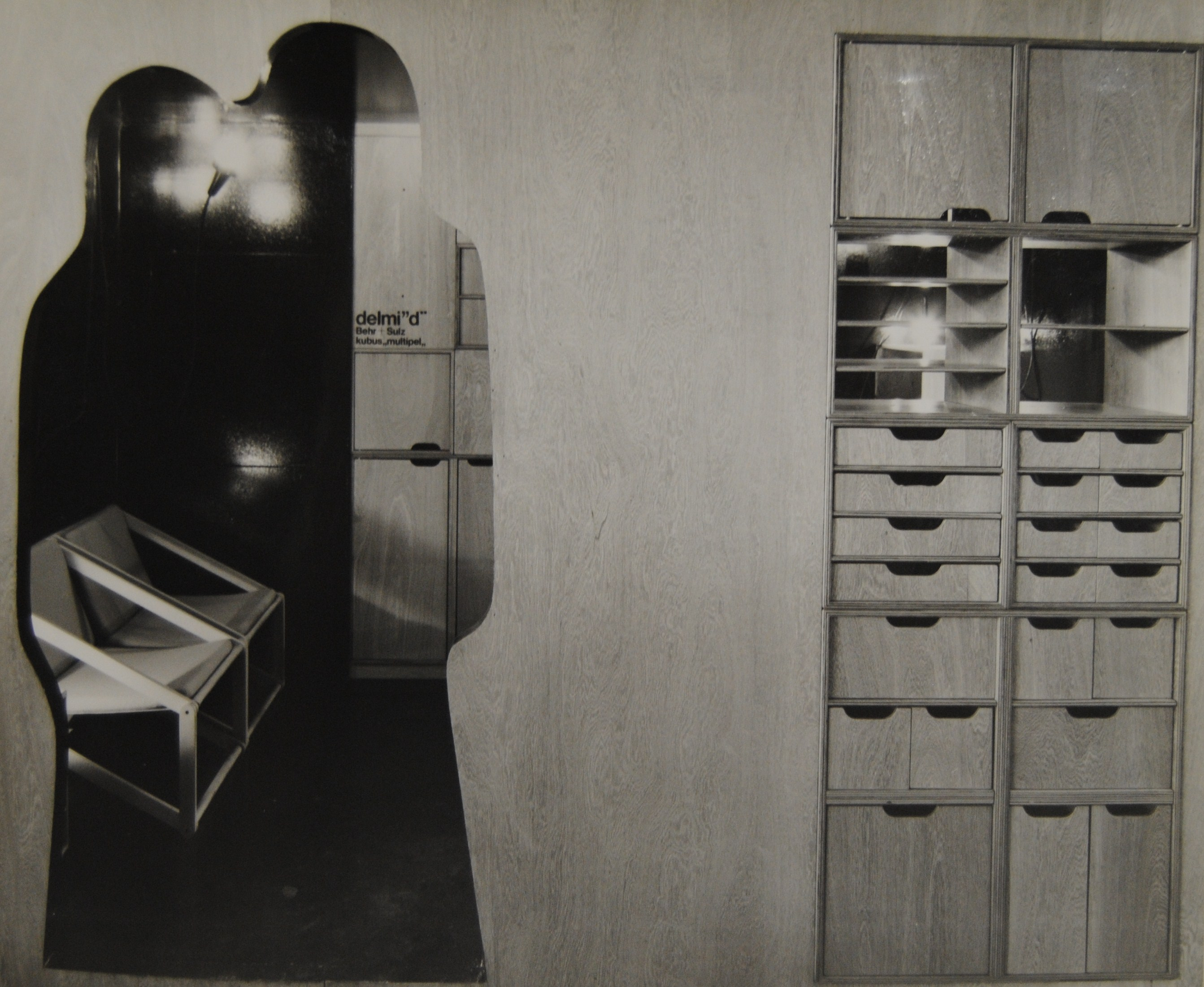 Picture taken on Interieur 1972 te Kortrijk Delmi D Vandekerkhove Gilbert Willekens Jan